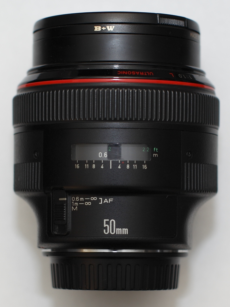 Photo of the legendary Canon EF 50mm f/1.0L Lens